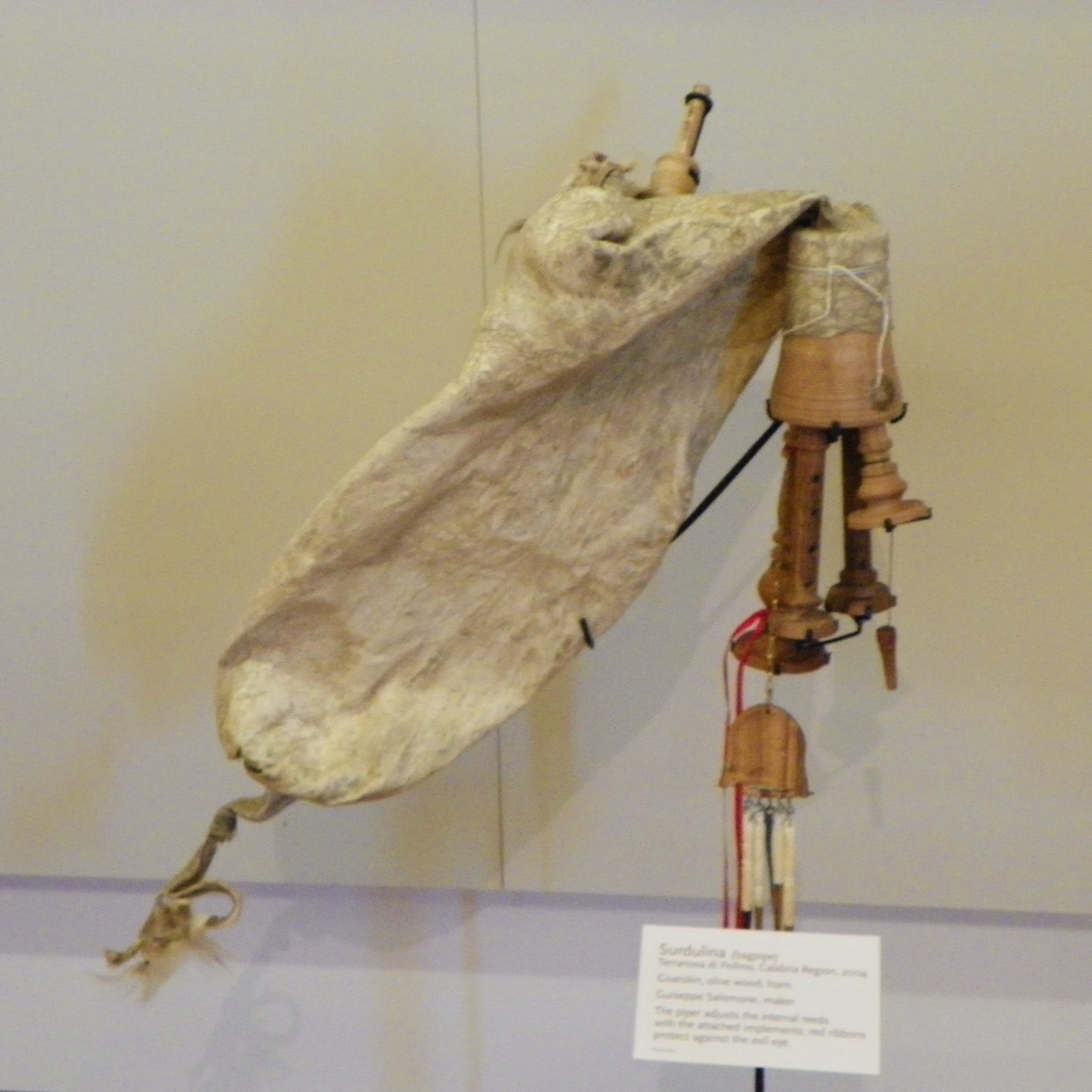 Surdulina (bagpipe) Photograph of musical instruments taken at the Musical Instrument Museum (Phoenix) on 2011-04-26.